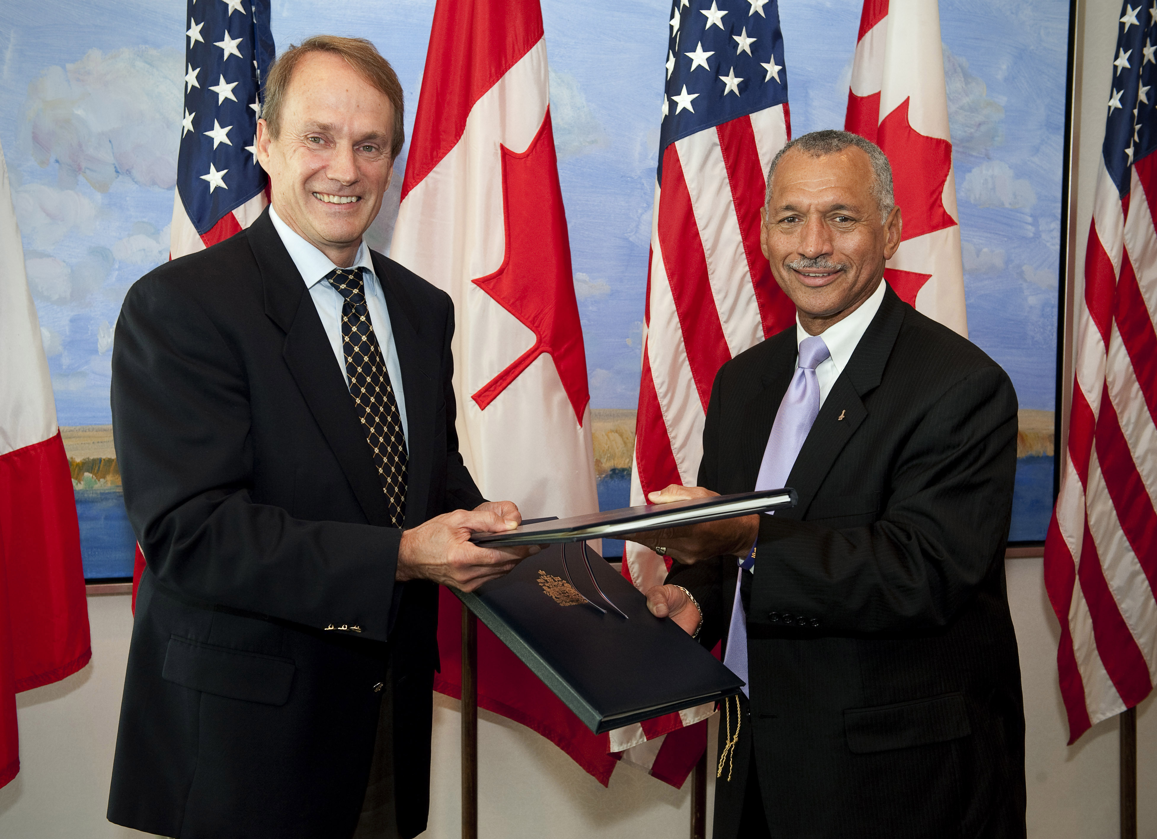 NASA Administrator Charles Bolden, right, and Canadian Space Agency President Steve MacLean signed a framework agreement on civil space cooperation, Wednesday, Sept. 9, 2009, at the Canadian Embassy in Washington, DC. Photo Credit: (NASA/Bill Ingalls) NASA Identifier: nasahqphoto-3907836896 Read more